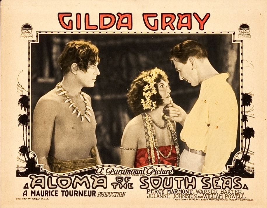 Lobby card for the 1926 film Aloma of the South Seas. The card has no copyright marks. At bottom left is Country of origin USA. At bottom right is This lobby display leased from the Famous Players-Lasky Corp.